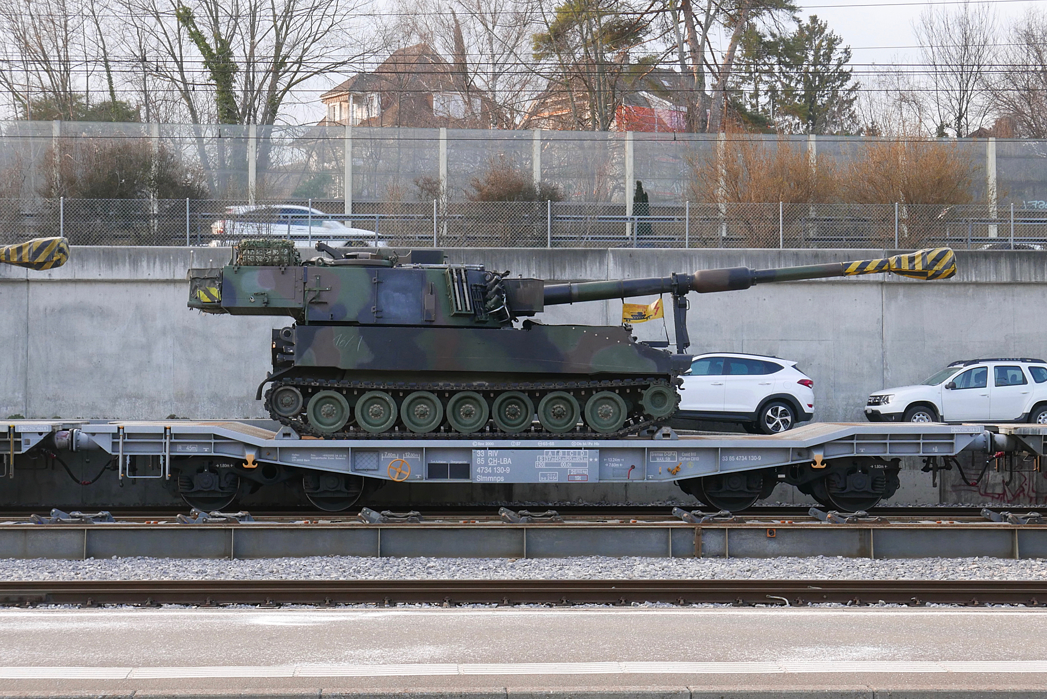 LBA Slmmnps 33 85 4734 130-9 loaded with an M109 Kawest howitzer at Morges train station.